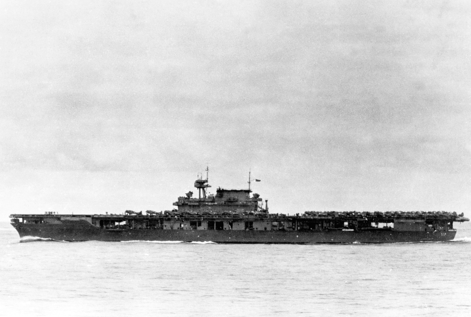 The U.S. Navy aircraft carrier USS Yorktown (CV-5) underway with her air group on the flight deck, 4 June 1942, probably about 0630-0730 hrs, following recovery of her morning search and respotting the flight deck with her strike group. Several Douglas SBD Dauntless scout bombers are on deck alongside and forward of the island, with many other planes densely parked aft. Douglas TBD-1 Devastator torpedo bombers are at the flight deck's rear.